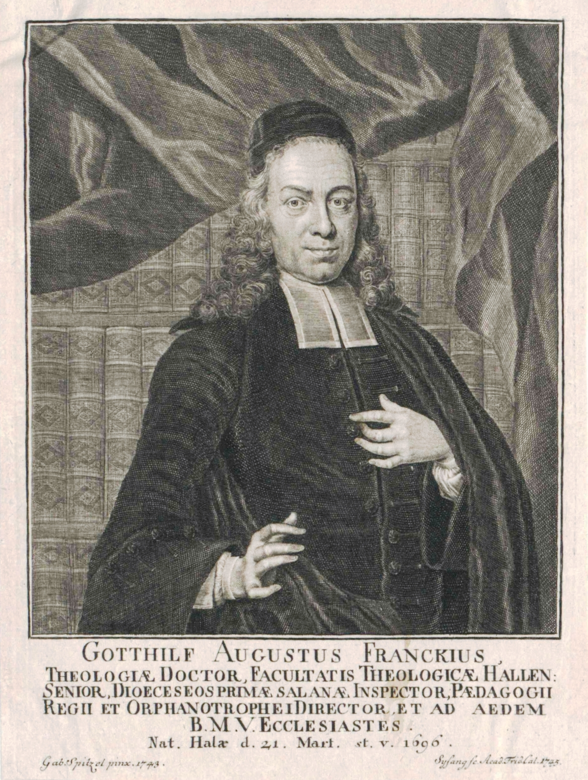 Gotthilf August Francke (1696-1769)